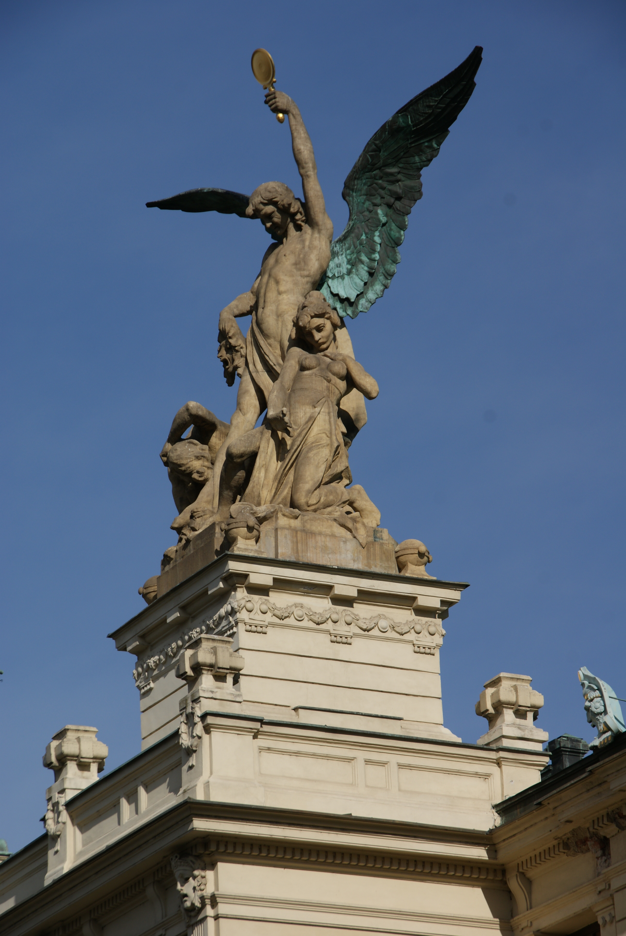 Scupture, Vinohrady Theatre, Prague